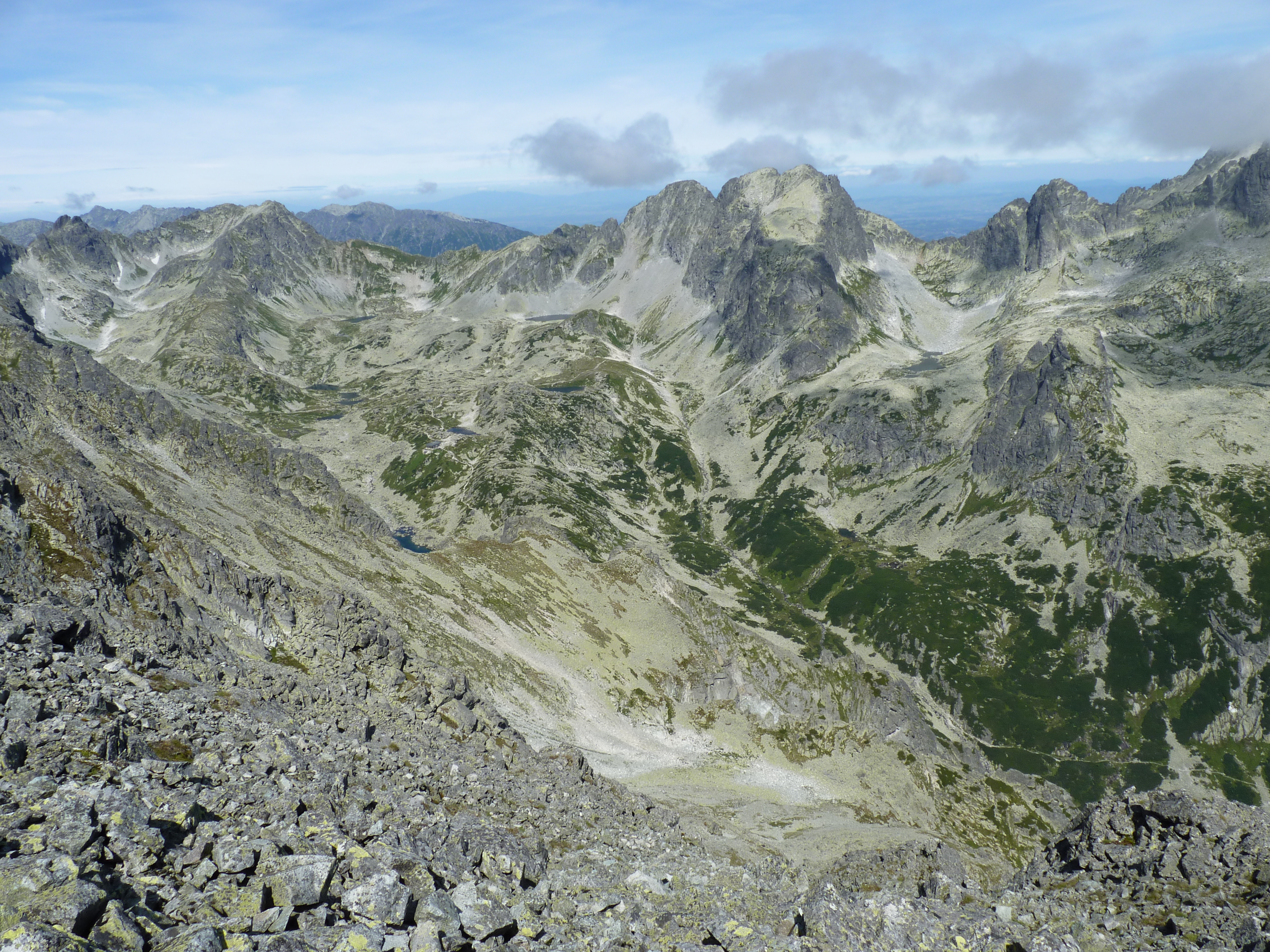 National nature reserve Studené doliny, Tatra Mountains, Slovakia